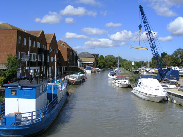 Boats on the River Stour at Sandwich in Kent. For more information see the Wikipedia articles River Stour, Kent and Sandwich, Kent.